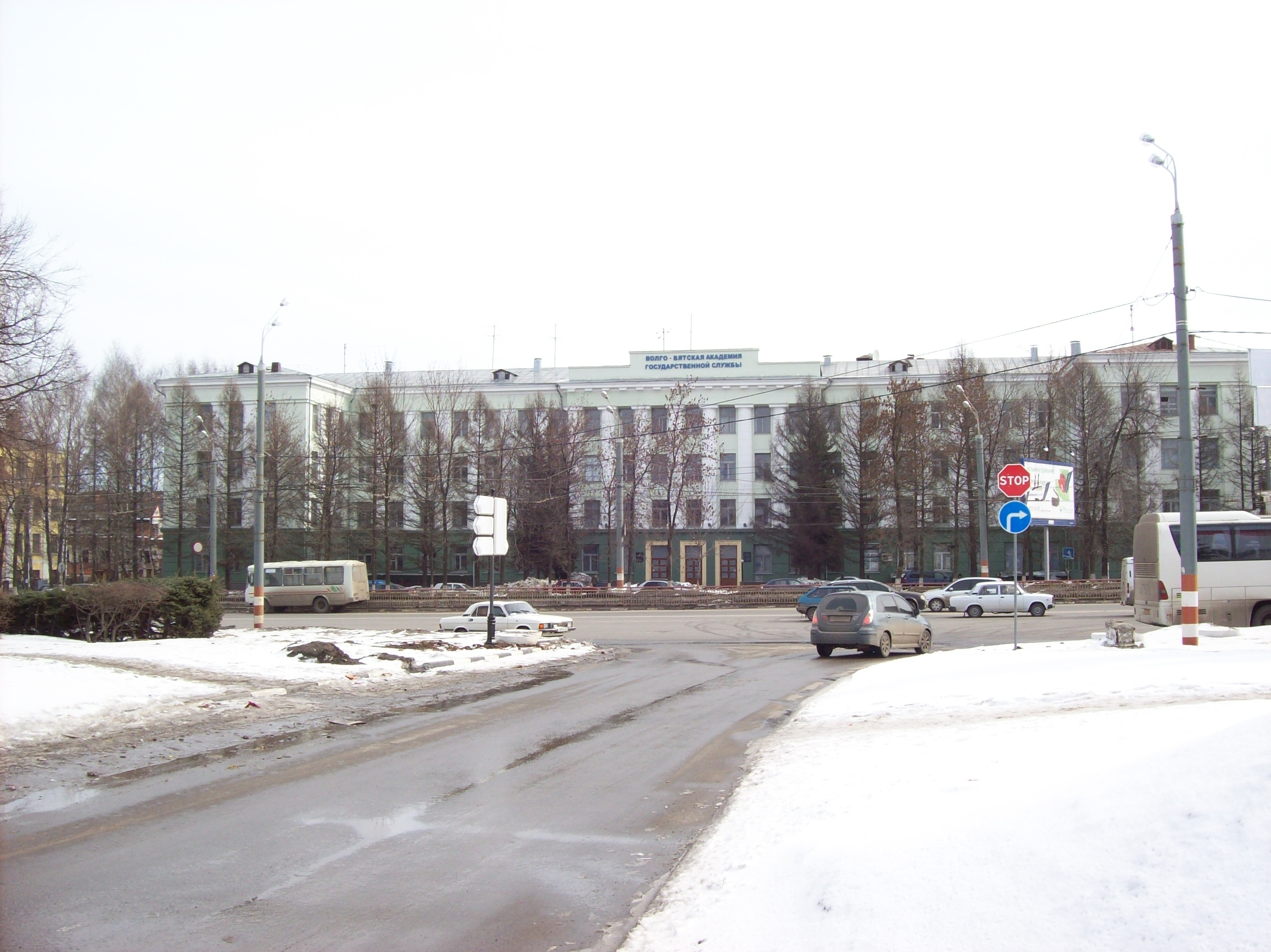 Volga-Vyatka Academy of Public Administration